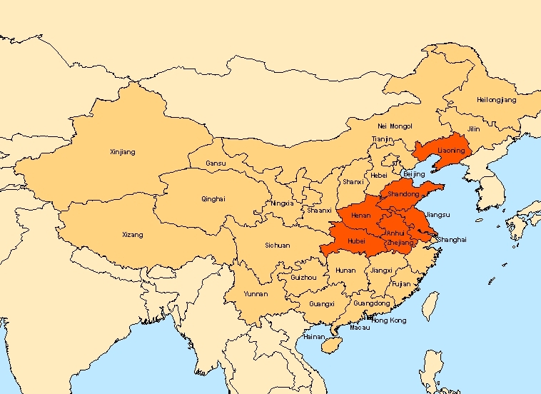 Geographic Distribution of SFTS in China SFTS bunyavirus isolated provinces(red) in Central and Northeast of China